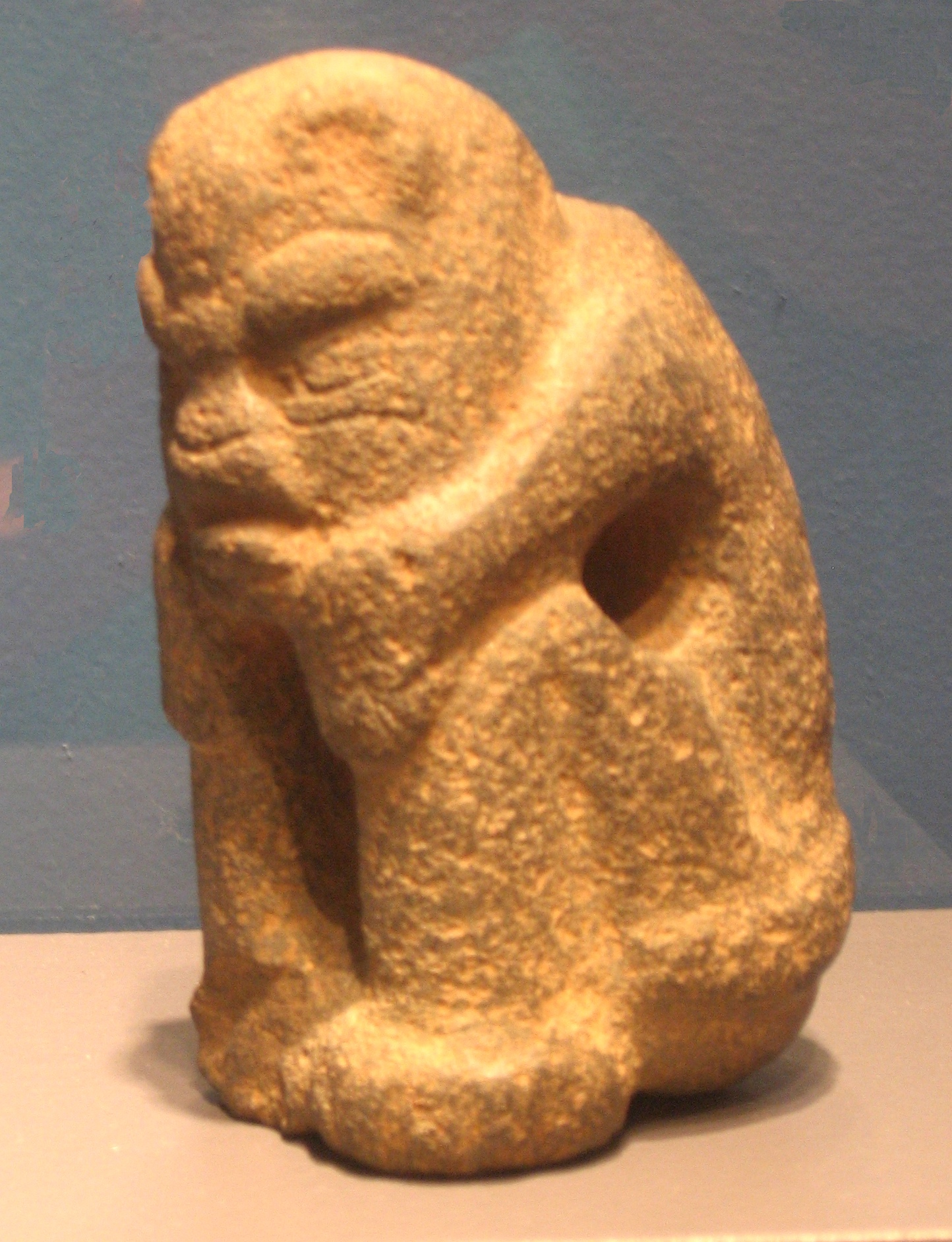 Jaguar-human Transformation Figure, basalt. Height: roughly 7 in. "Middle Preclassic, 1000-300 B.C. Veracruz/Tabasco"